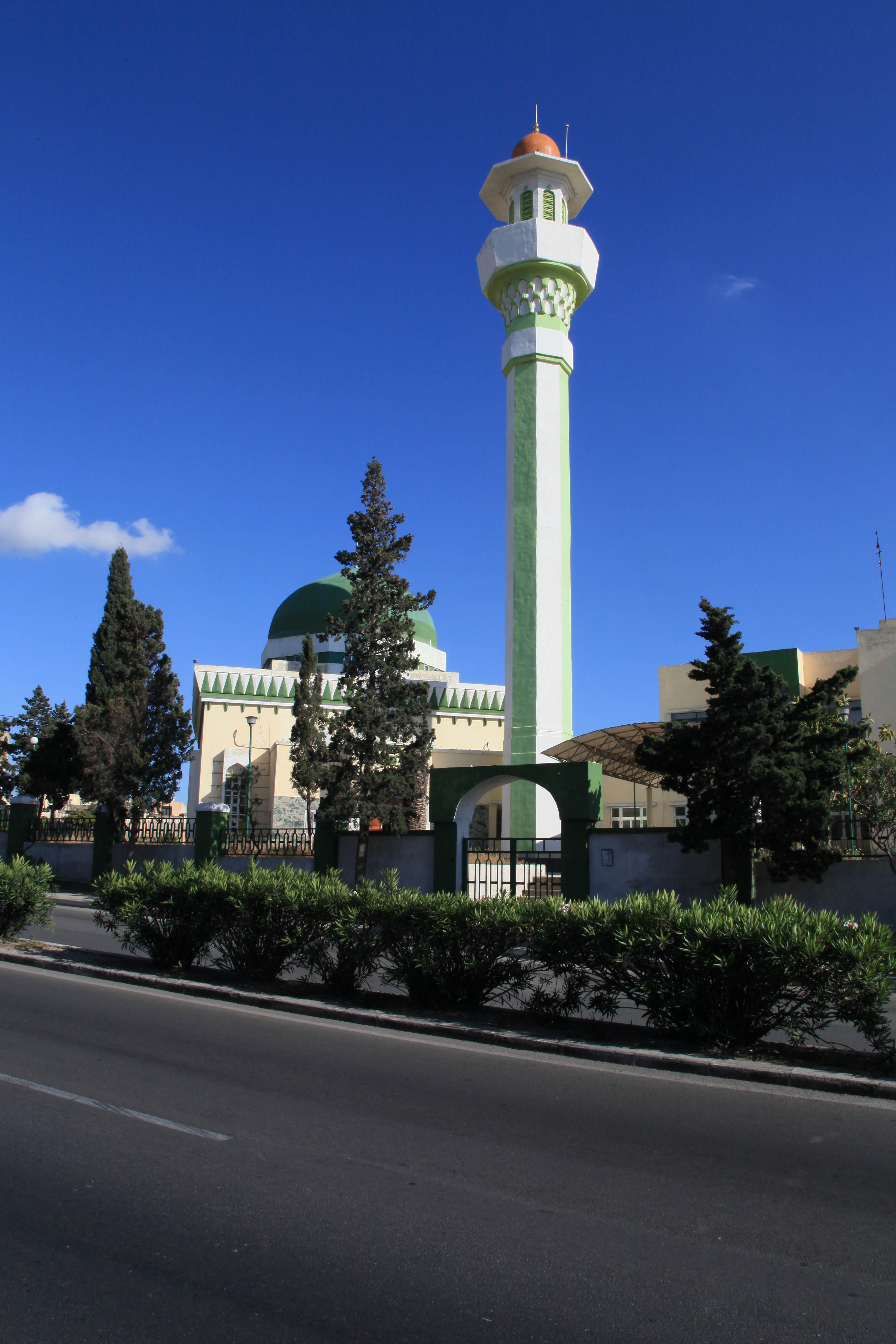 Mariam Al-Batool Mosque at Triq Kordin in Paola, Malta